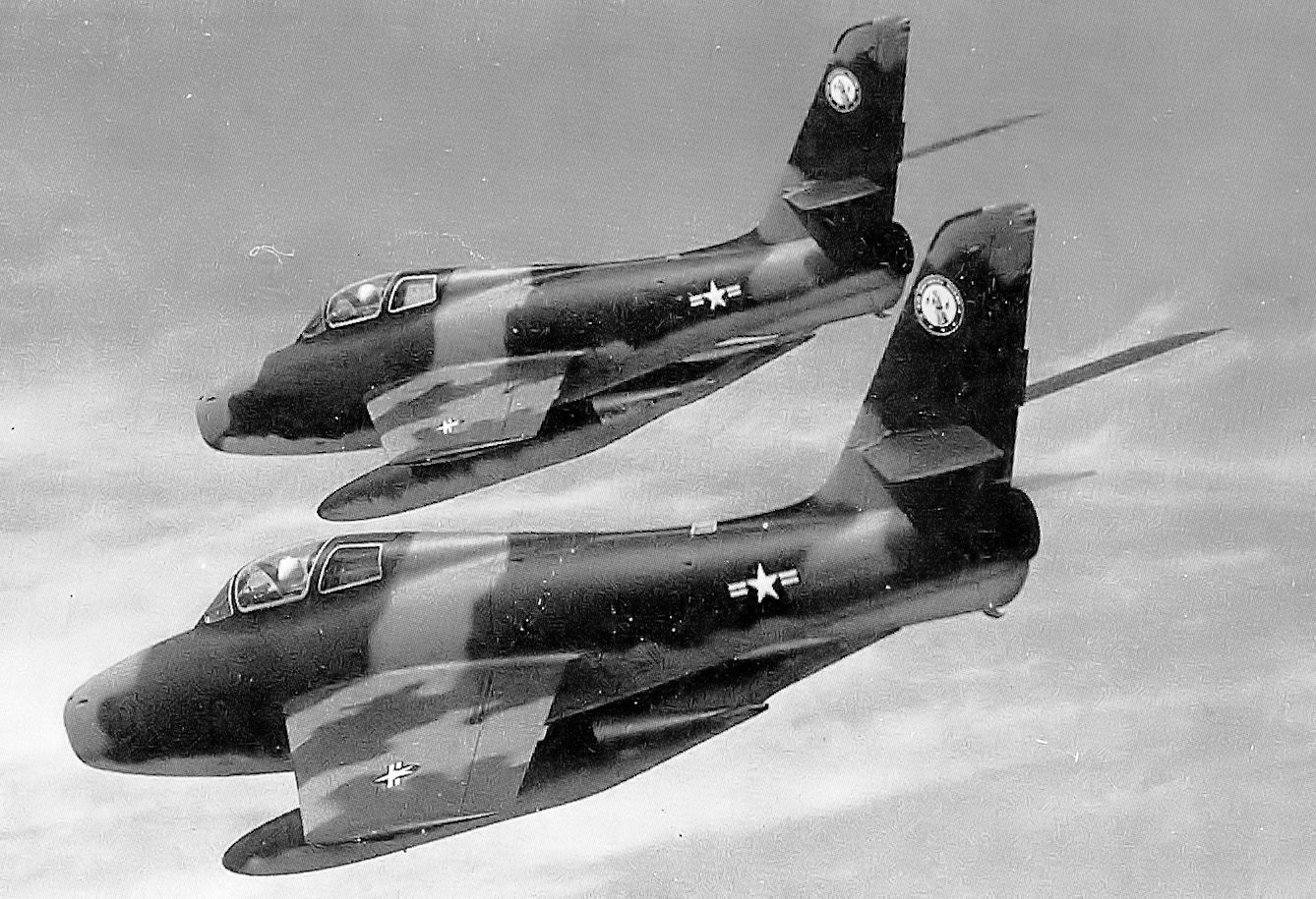 163d Tactical Fighter Squadron - F-84F Thunderstreaks about 1967 in Vietnam War camouflage livery. Also note the USAF insignia was much smaller after the switch-over from the natural aluminum finish made in 1966 under AFM 66-1.